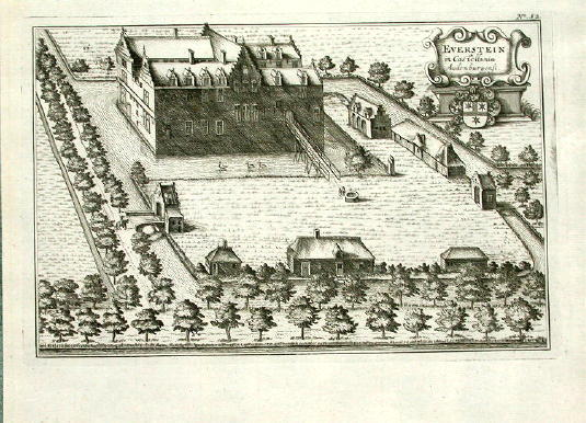 Everstein castle in Wondelgem, belgium, drawn by Sanderus